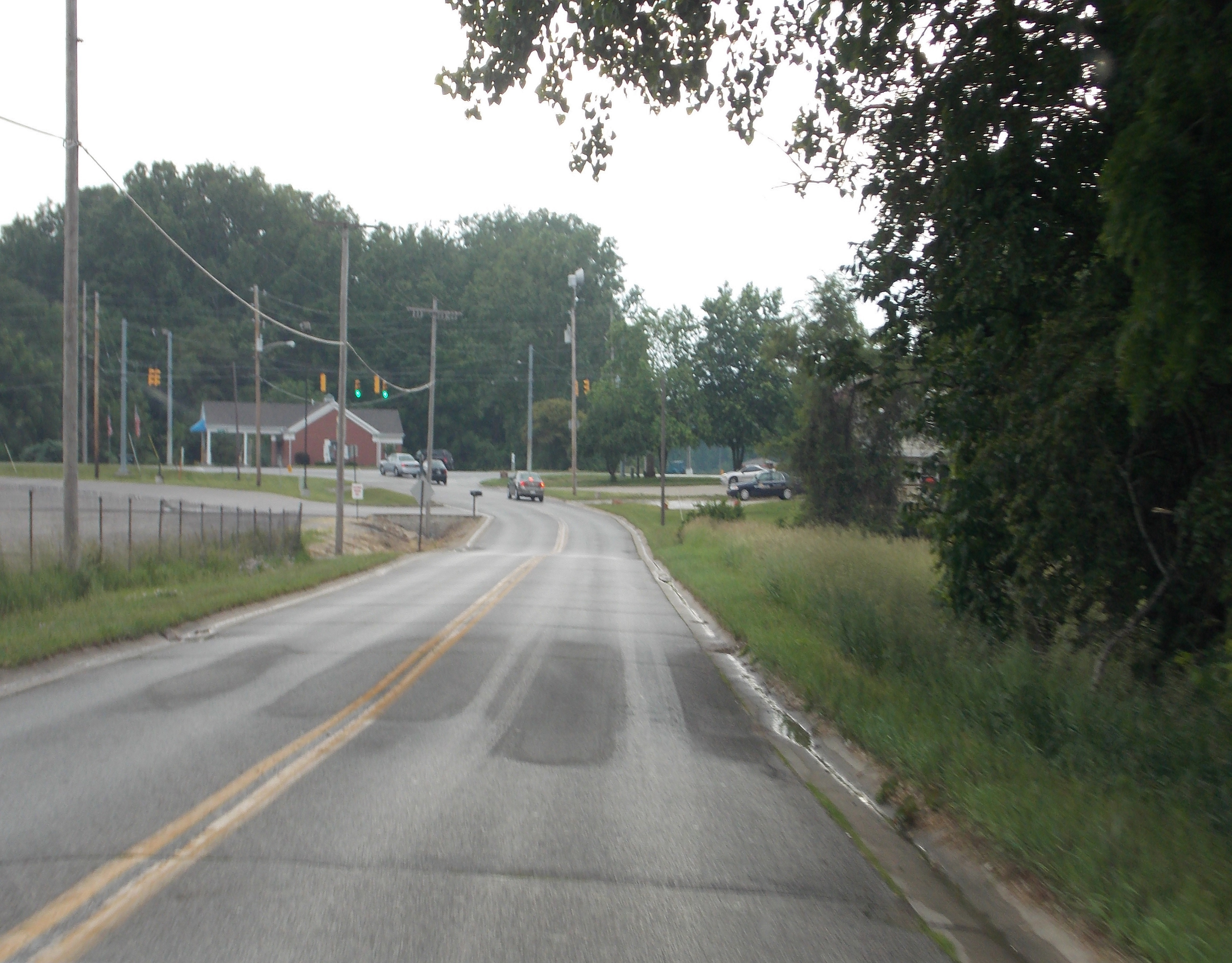 Looking west on Epworth Village Road in North Webster, Indiana.